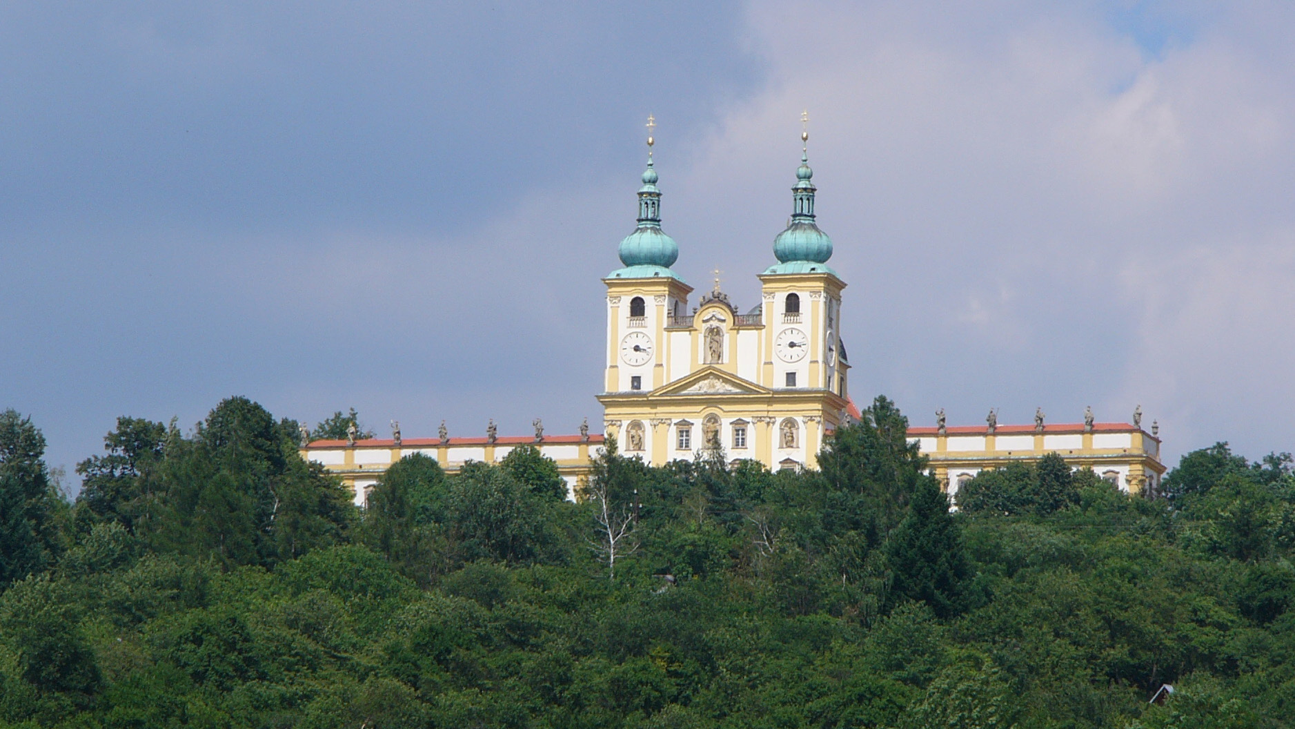 The Basilica Minor of the Visitation of the Virgin Mary on Svatý Kopeček (The Holy Hill) near Olomouc (Czech Republic).